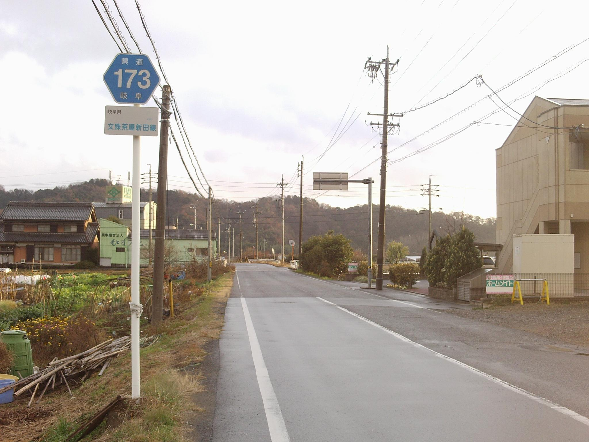 Gifu prefectural road No.173 in Monju, Motosu, Gifu.